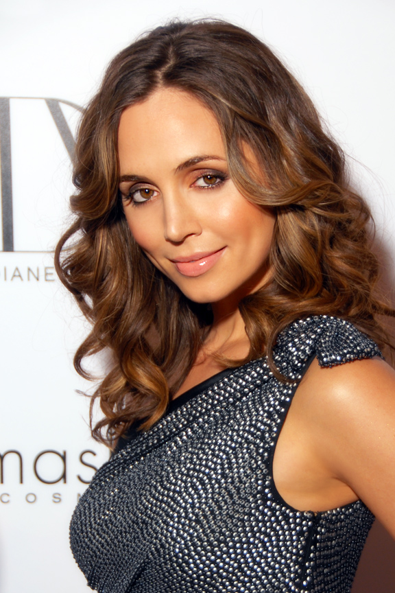 Eliza Dushku attending "Susan G. Komen's 8th Annual Fashion For The Cure" event - Hollywood, CA on Sept. 24, 2009 - Photo by Glenn Francis of